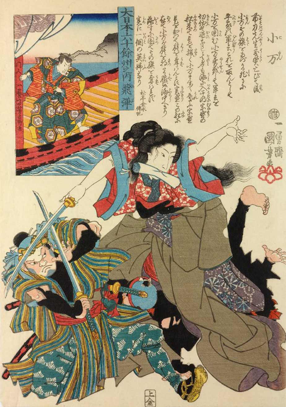 Japanese swordswoman in a duel. "No. 23 Hida. The Sixty-odd Provinces of Great Japan" (Hida, Dai Nippon rokujugo shu no uchi - 飛騨、大日本六十余州之内)